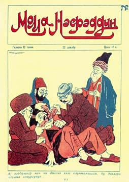 Molla Nasreddin magazine (on Azeri), published between 1906-1931